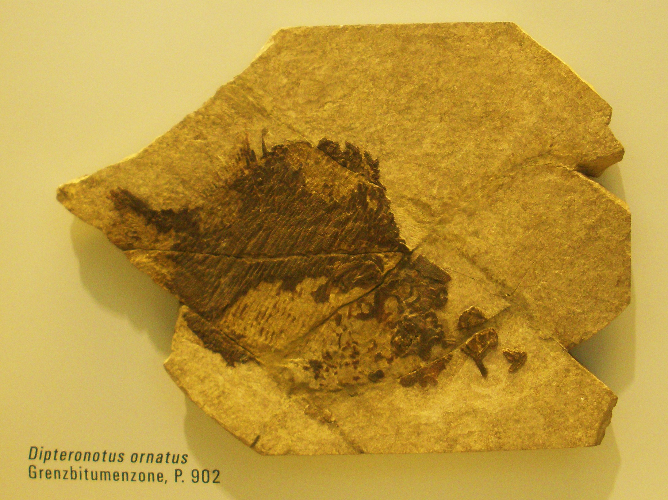 fossil of Dipteronotus